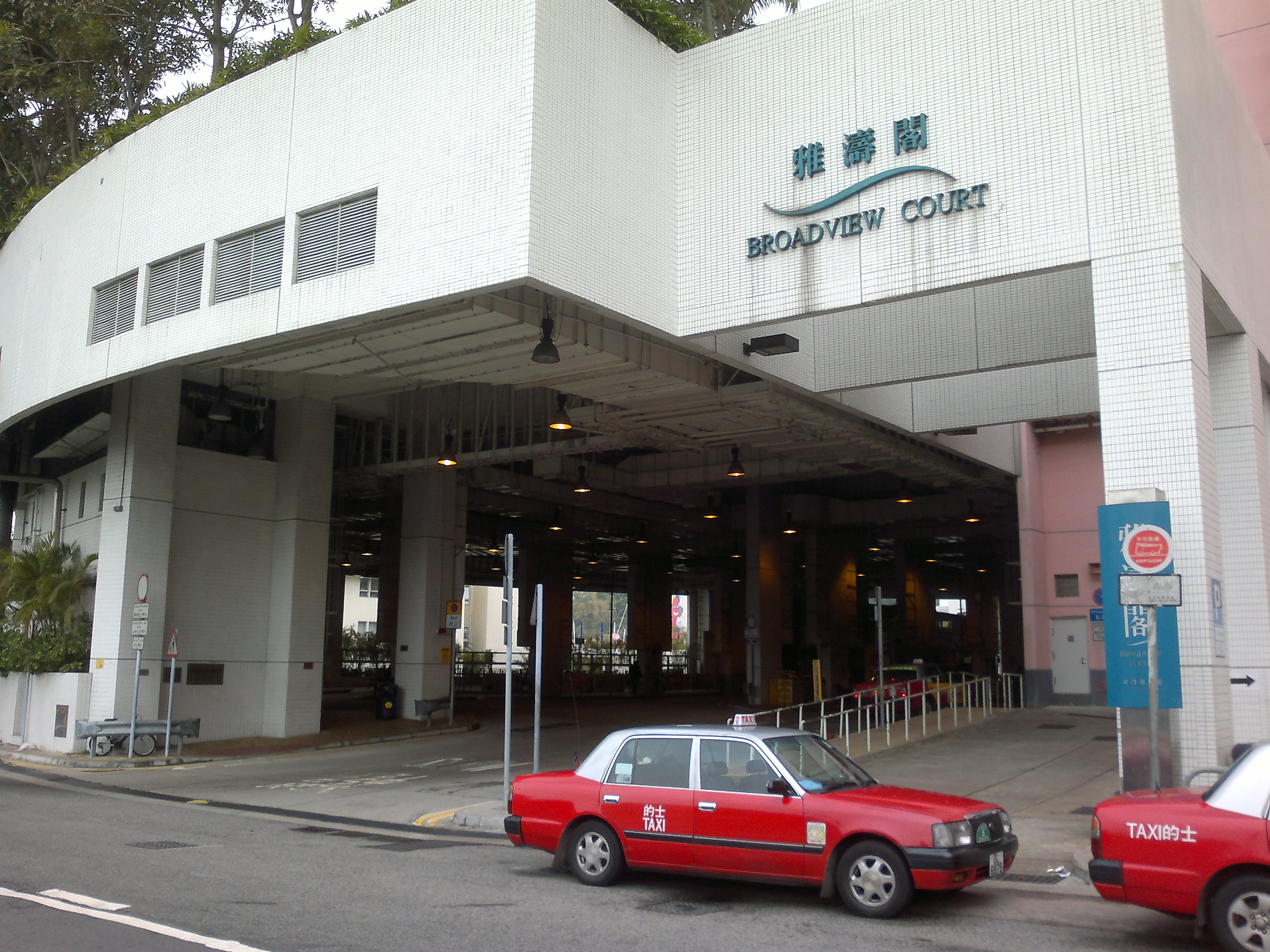 Sham Wan Bus Terminus